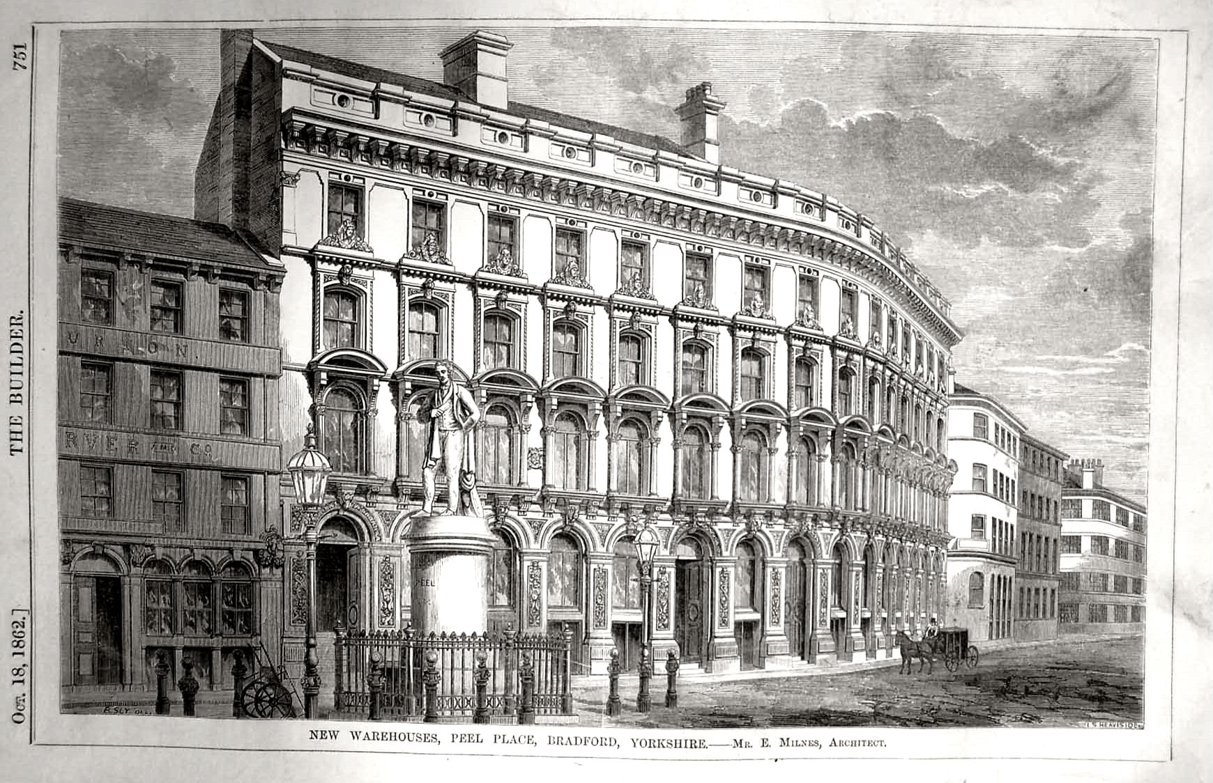 Former warehouses in Peel Place, Bradford, West Yorkshire, England. Designed by Eli Milnes and completed in 1862. The architectural sculpture was carried out by Mawer & Ingle. The warehouses were demolished in the twentieth century and replaced by a housing development.